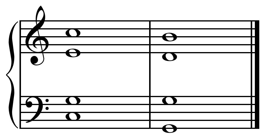 Half cadence in C major (I V).